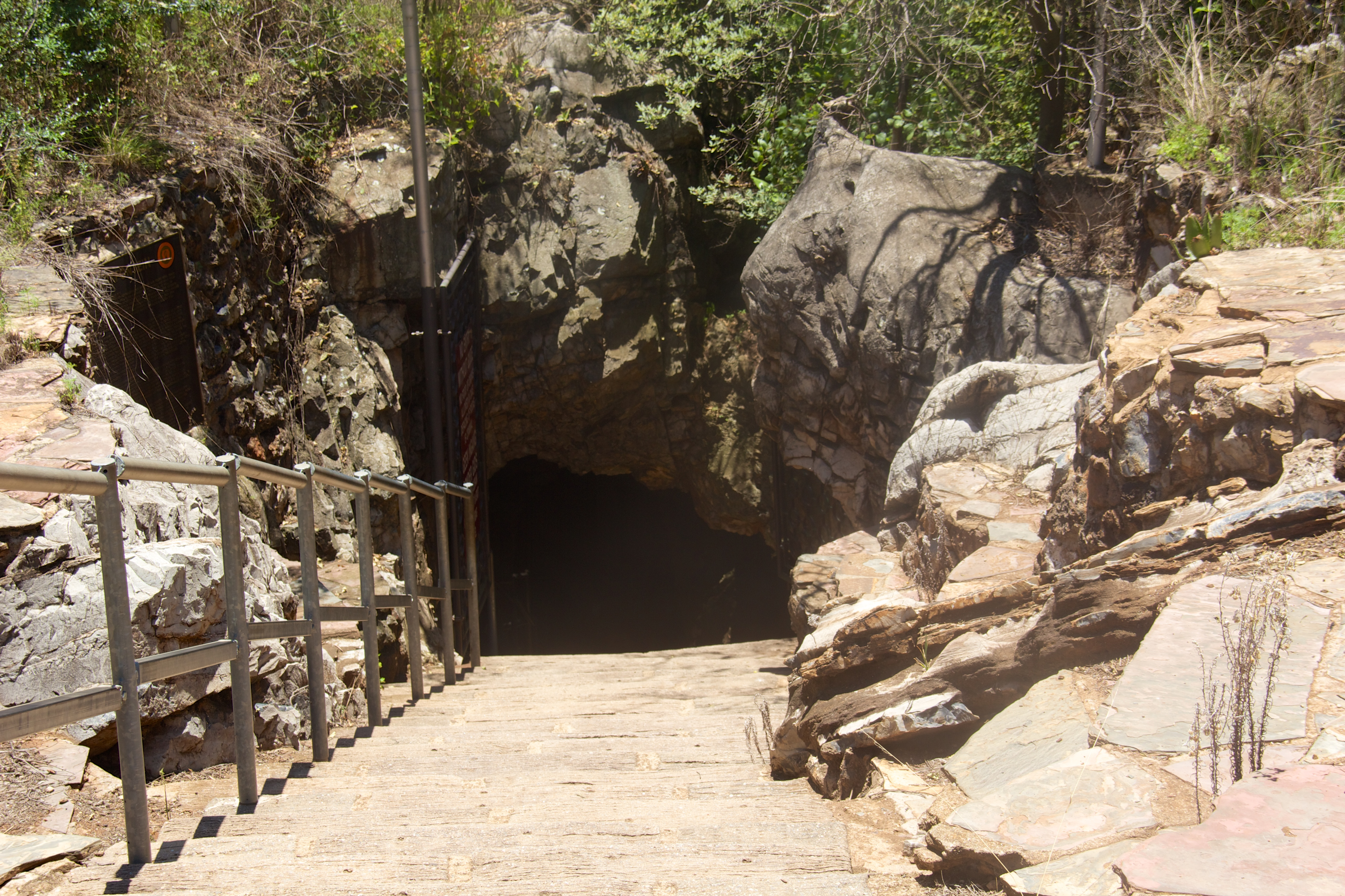 Entrance to the Sterkfontein caves